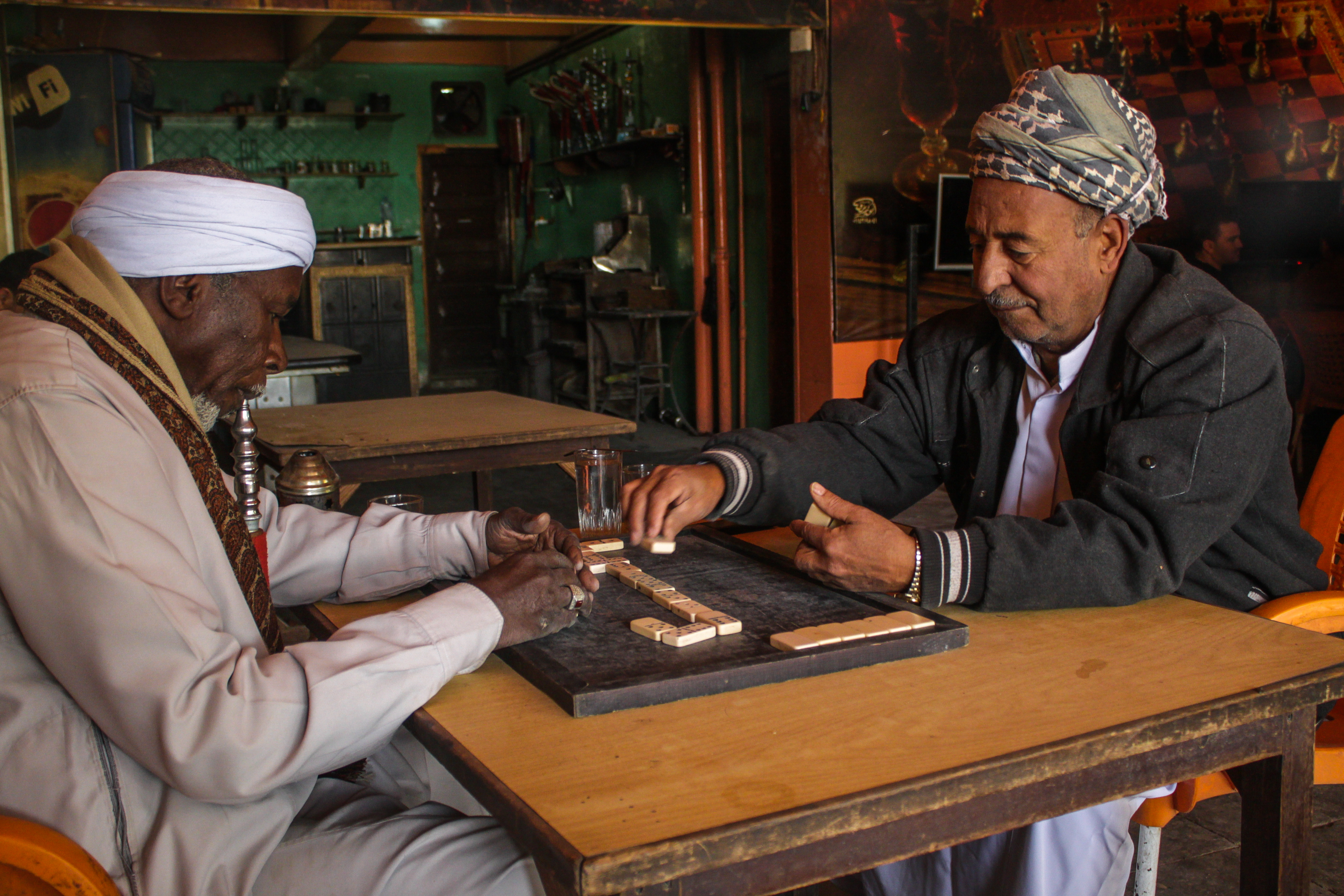 This is an image with the theme "Play" from: Egypt